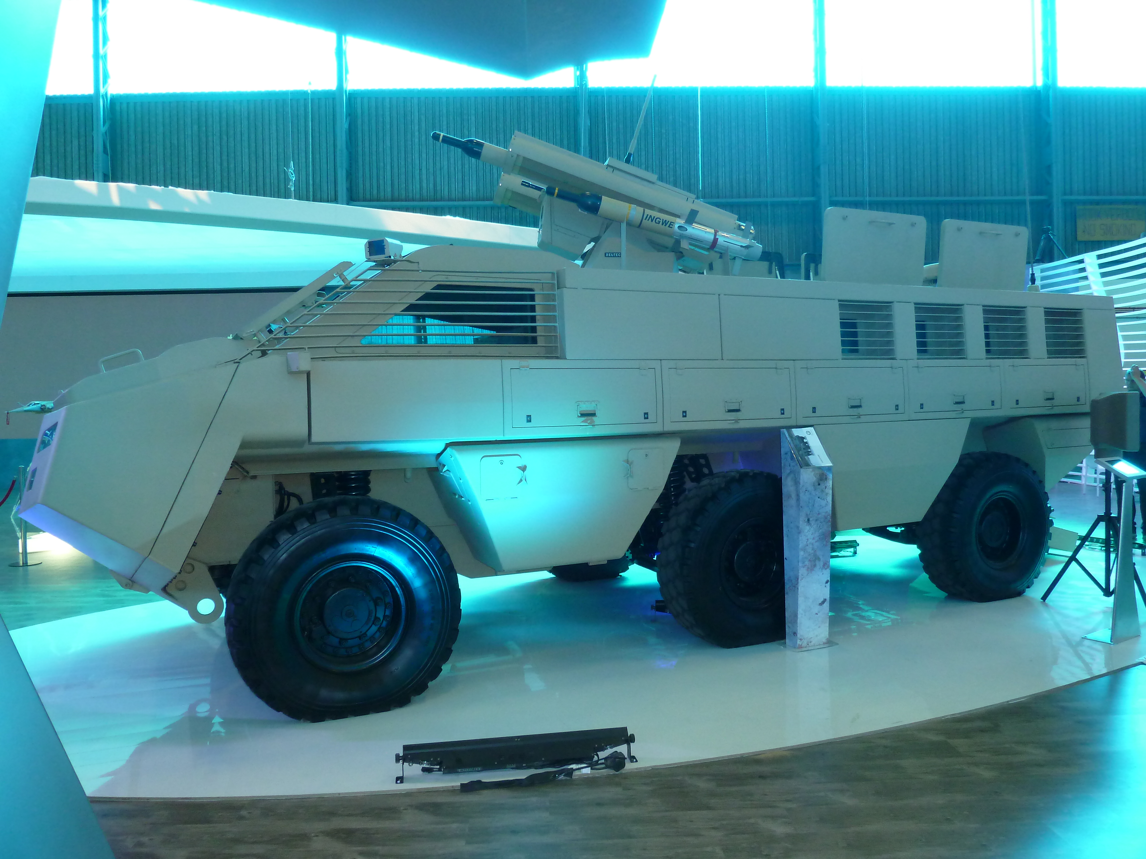 A Mbombe 6x6, mine-protected IFV by Paramount, fitted with Ingwe missiles, in exhibition hall at Waterkloof AFB